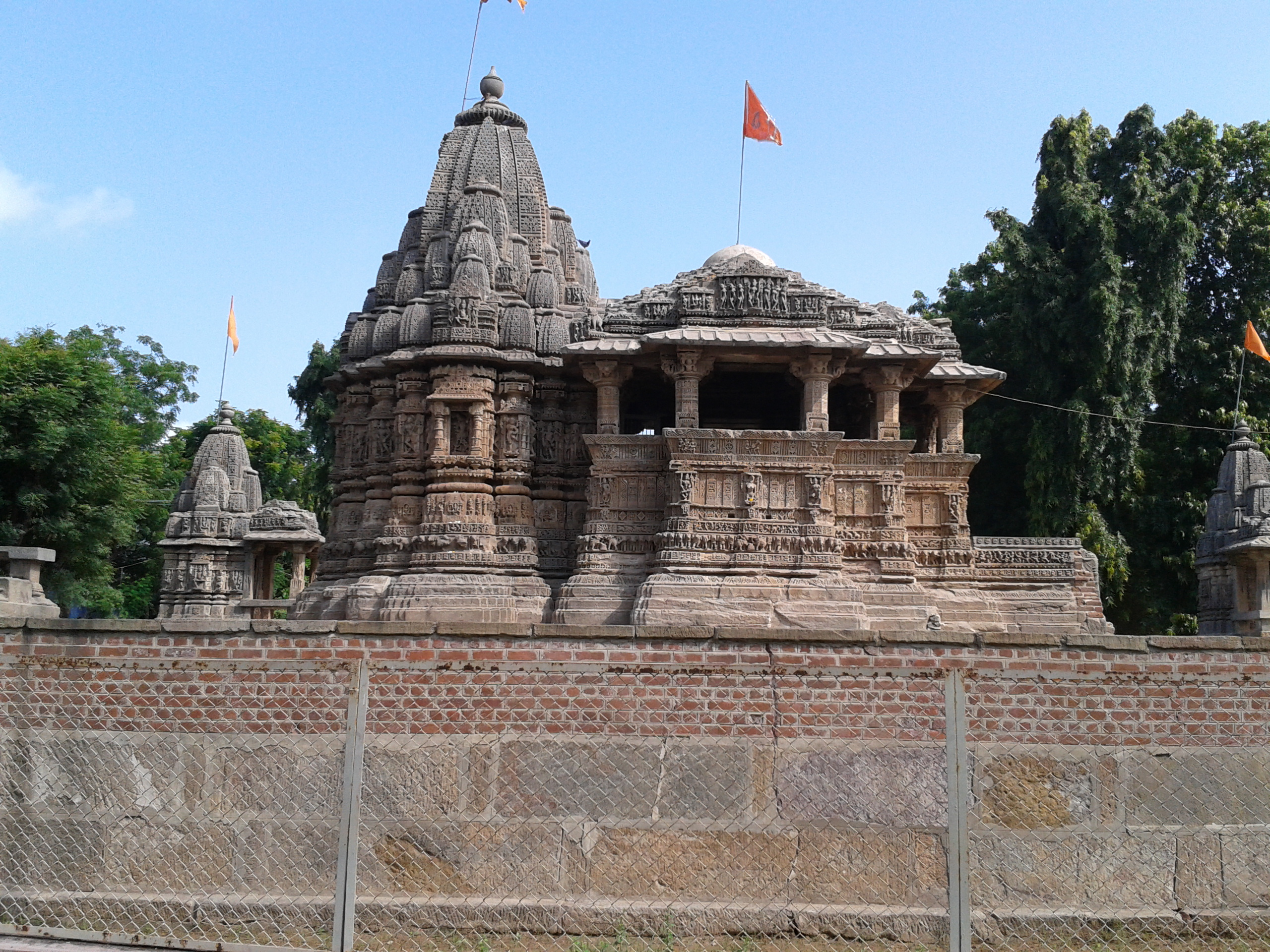 Shiv Temple